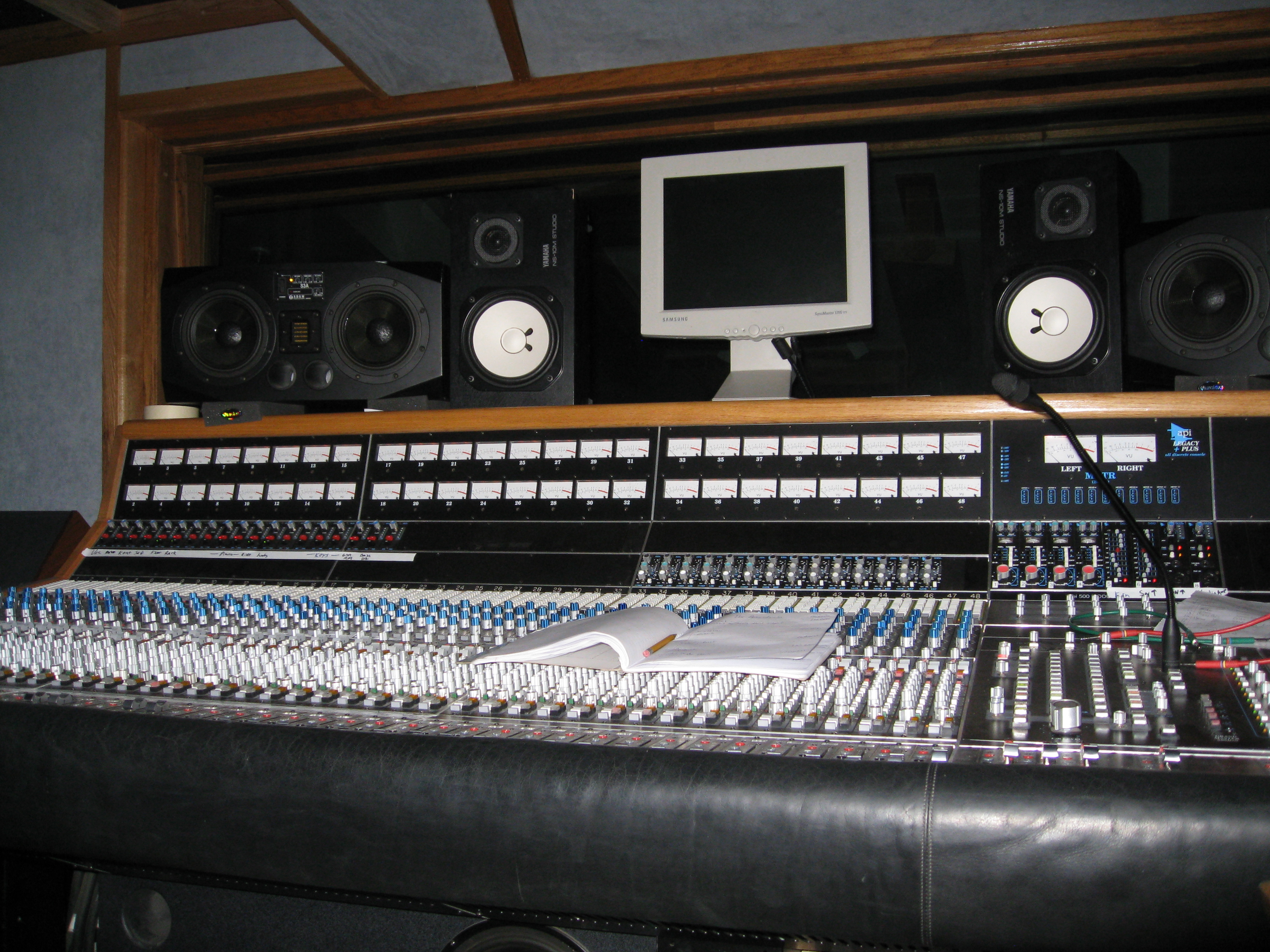 Supernatural Sound - audio console (main) console API Legacy Plus 48ch with flying faders near field monitors ADAM S3A Yamaha NS-10M STUDIO